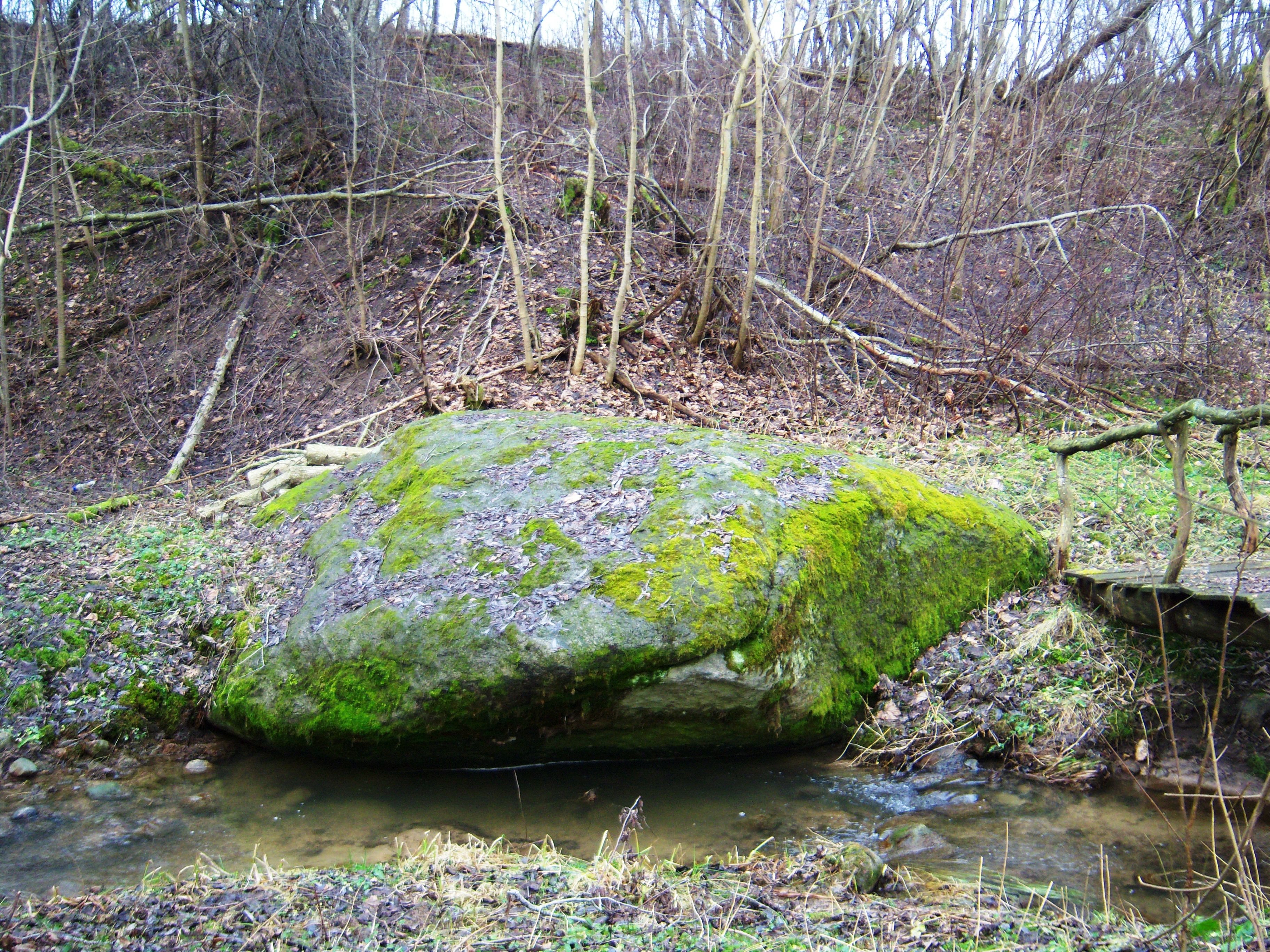 Skirtinas stone, Raseiniai District, Lithuania